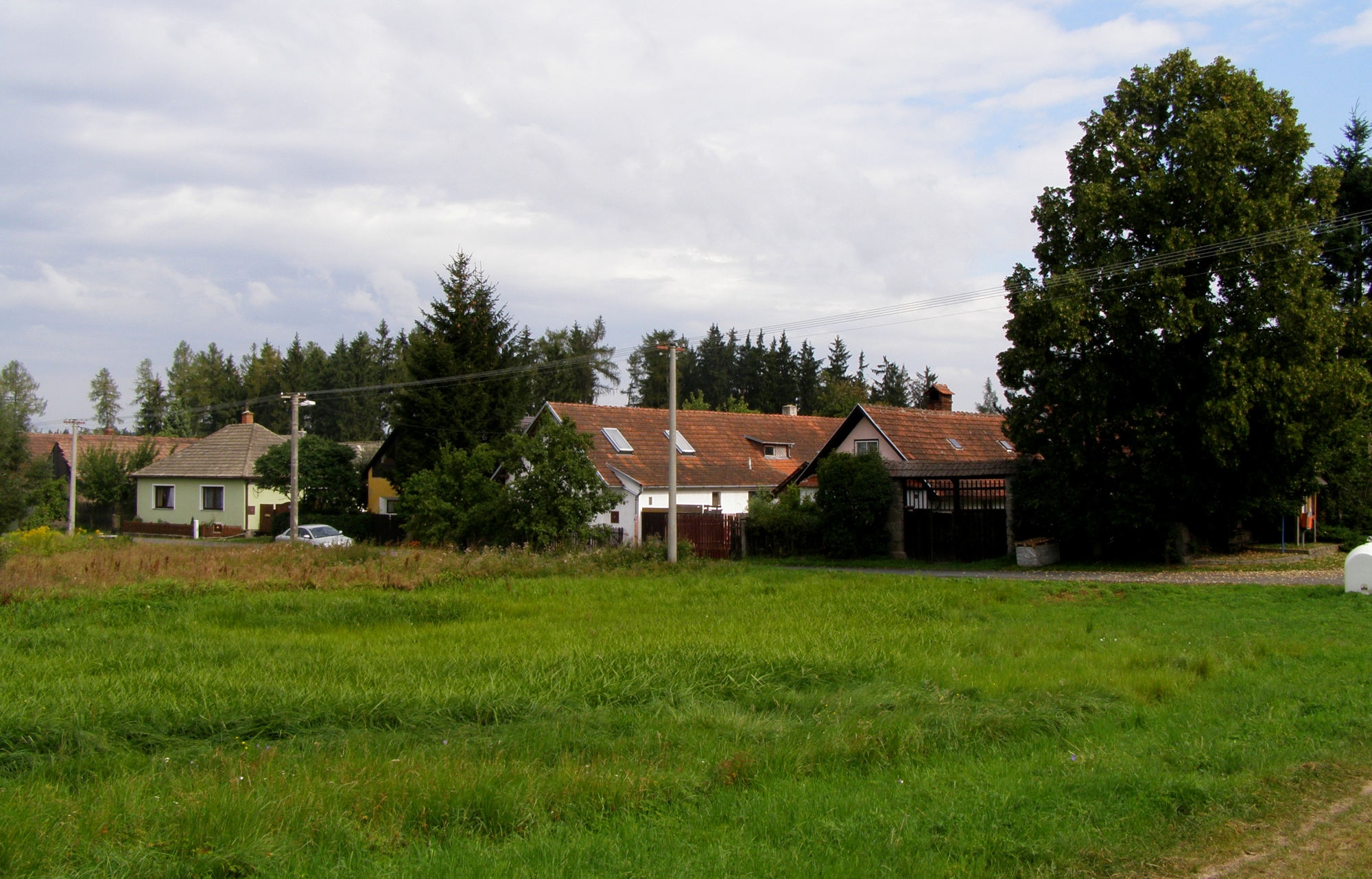 Kamenná-Klementice. View to the NE, from the chapel